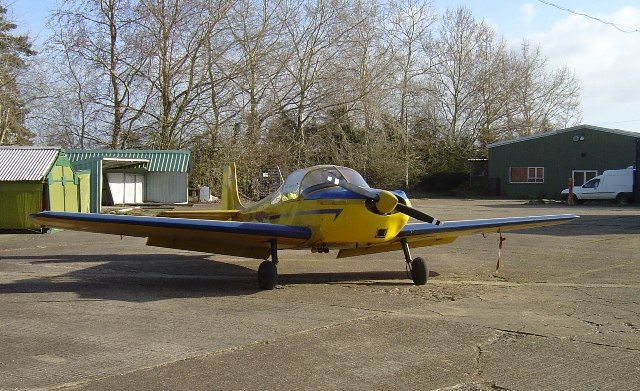 Rollason Condor